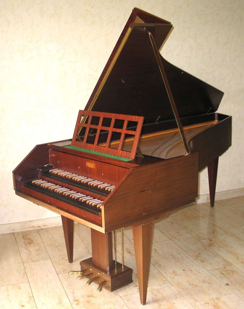 Harpsichord build in 1976